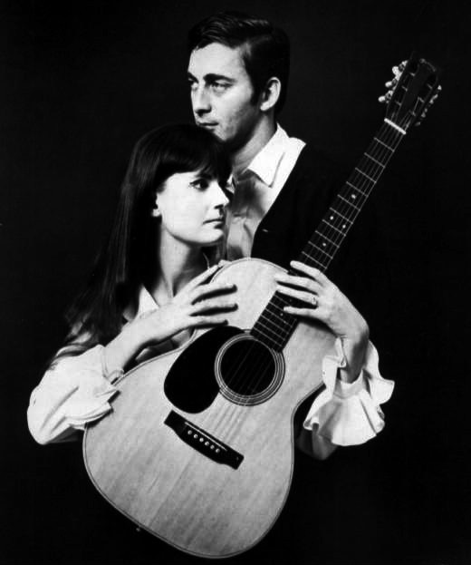 Publicity photo of singers Ian and Sylvia.